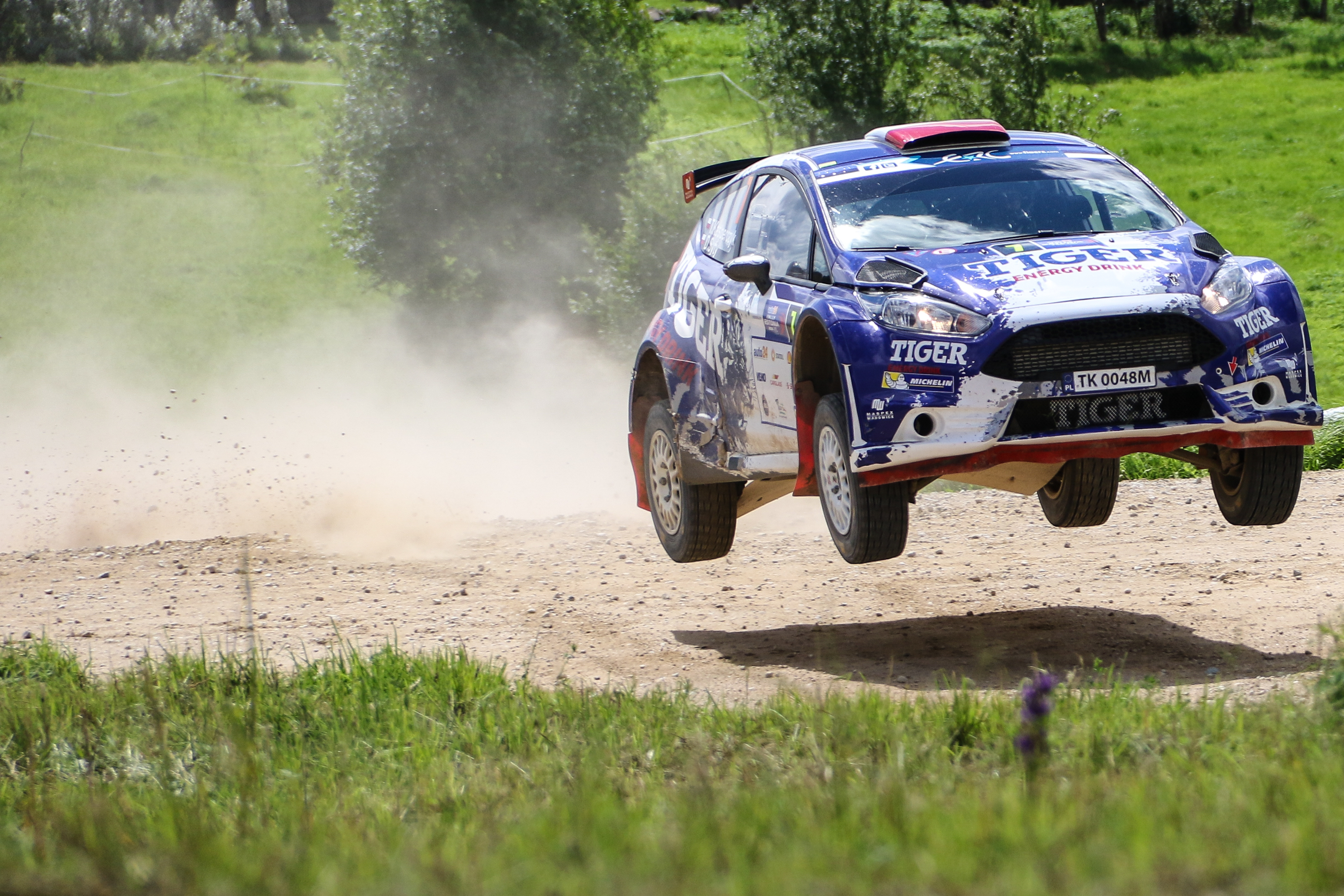 Tomasz Kasperczyk @ Rally Estonia 2016, SS 5 Raiga 2